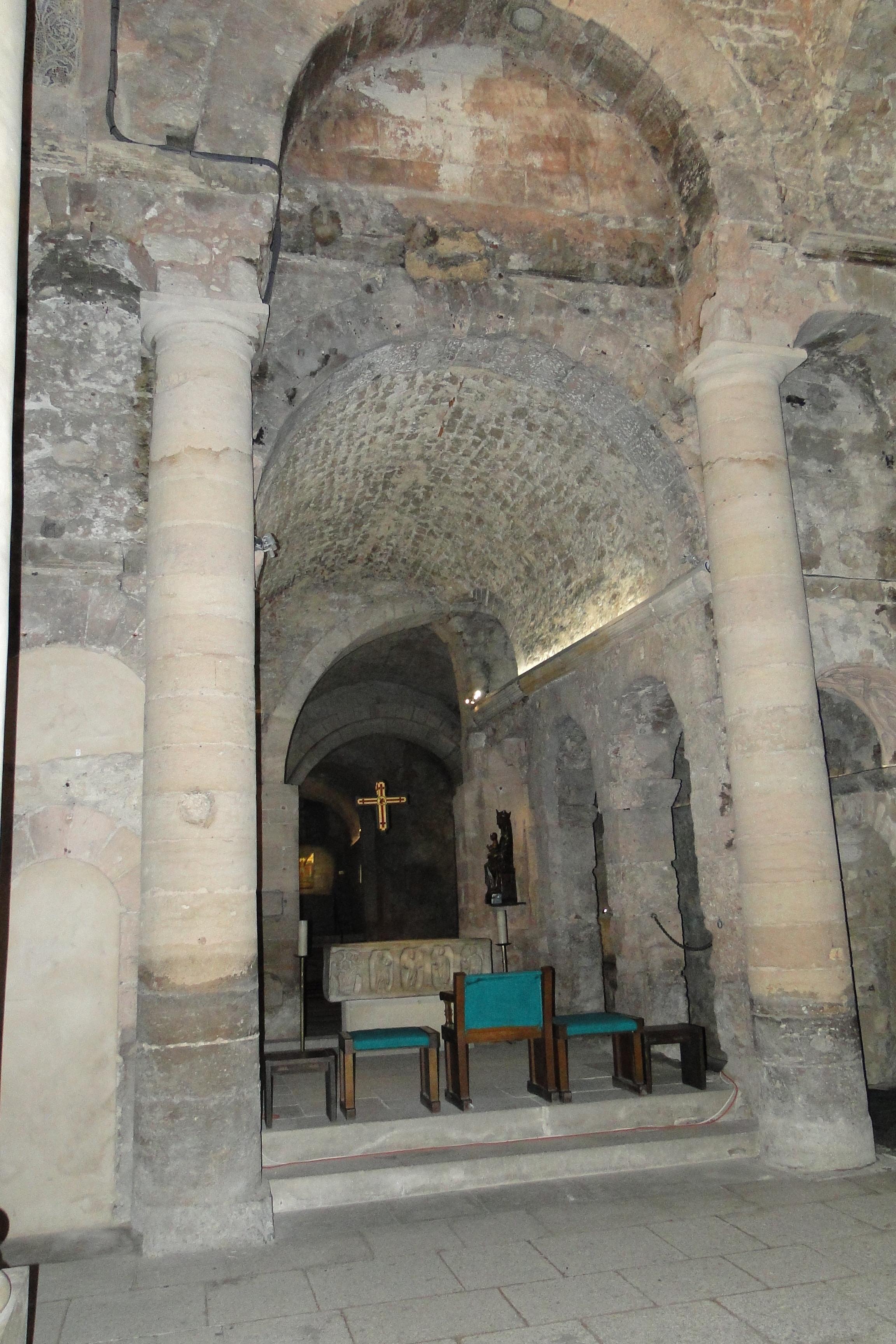 Church of Saint-Victor (Marseille) - Martyrium